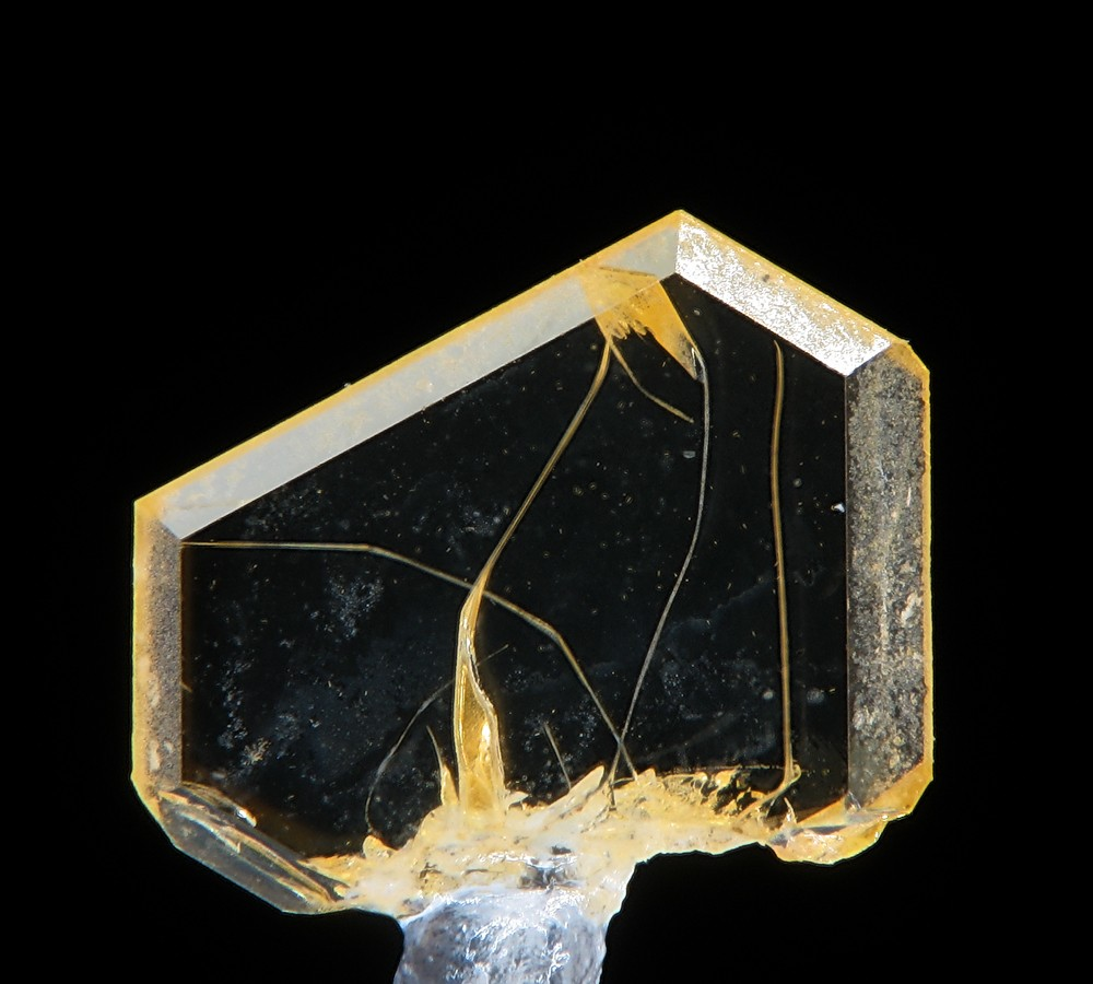 Asbecasite Locality: Wanni glacier - Scherbadung Mt. (Cervandone Mt.) area, Kriegalp Valley (Chriegalp Valley), Binn Valley, Wallis (Valais), Switzerland (Locality at ) Picture width 1,5 mm. Collection and photograph Christian Rewitzer